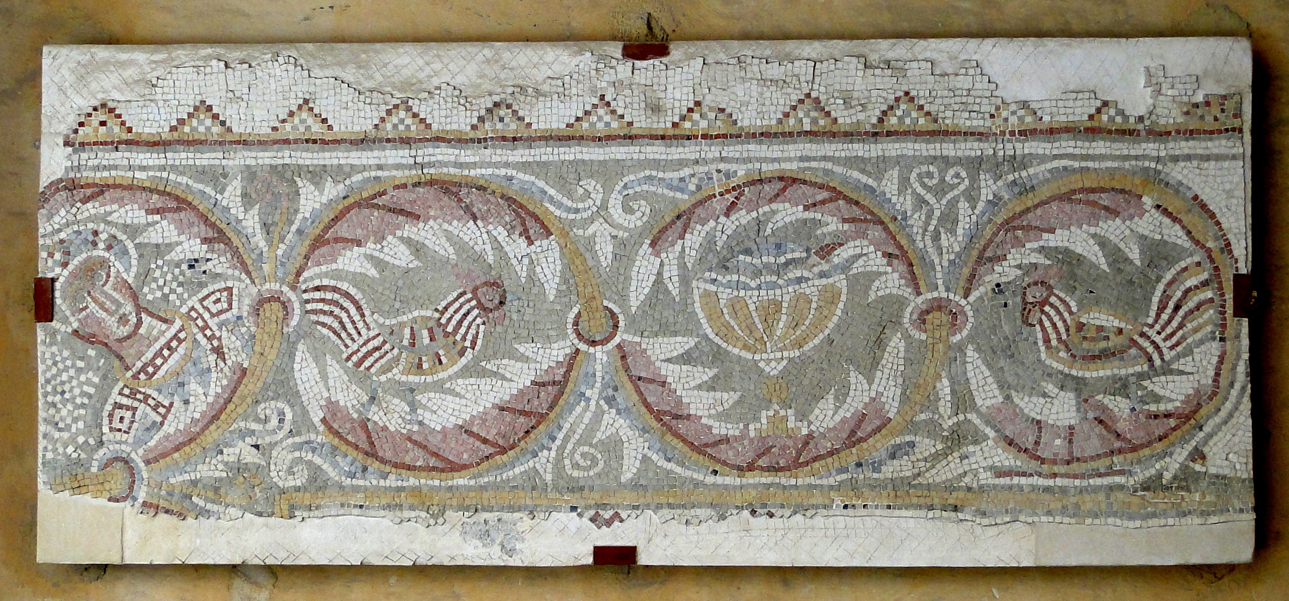 Part of a mosaic showing rooters in the Archaeological Park of Madaba, Jordan